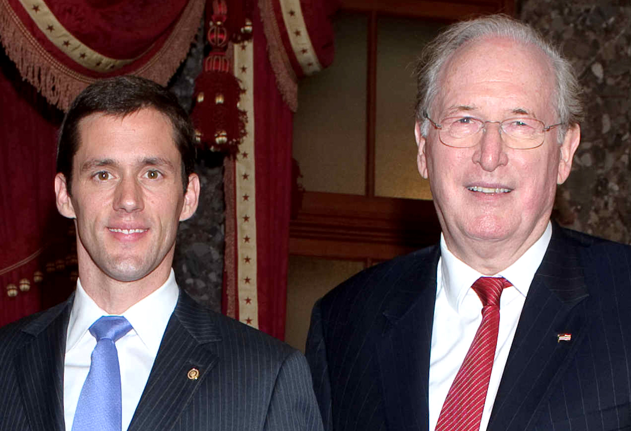 Carte P. Goodwin, junior United States Senator from West Virginia, with Jay Rockefeller, senior United States Senator from West Virginia.